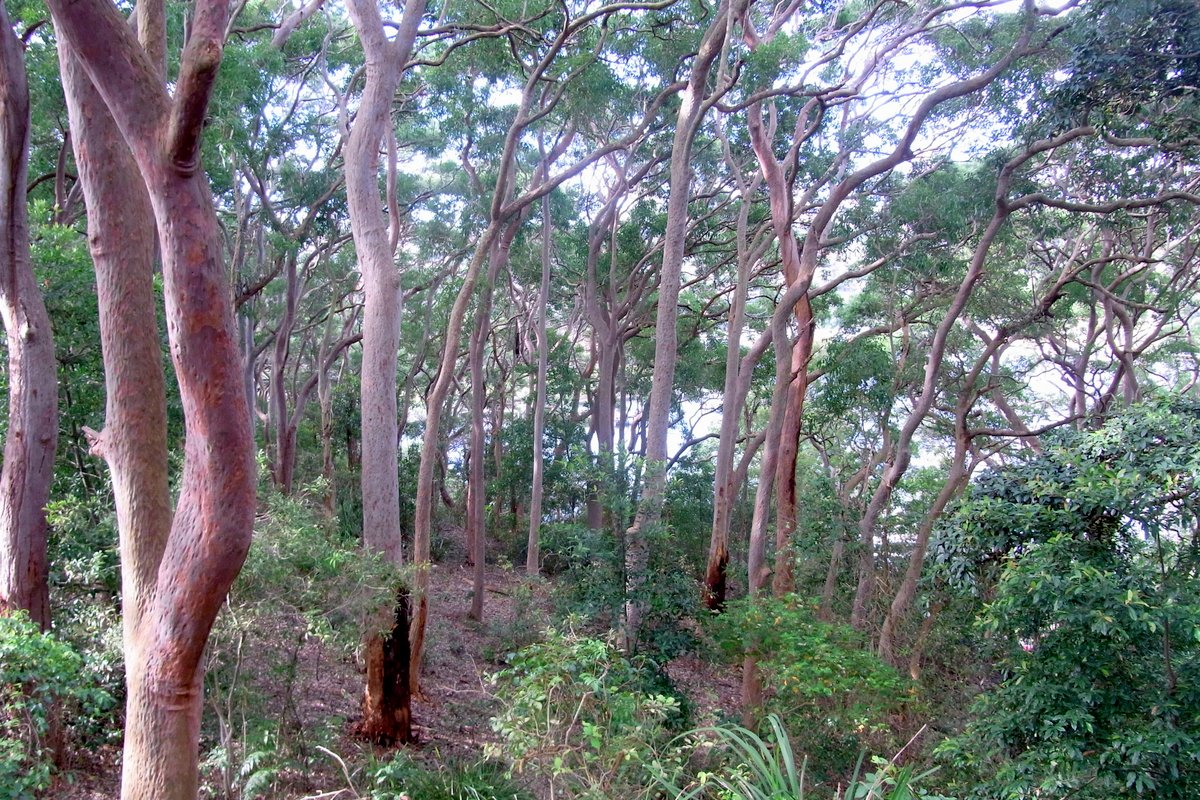 Angophora costata at Balls Head, Sydney, Australia